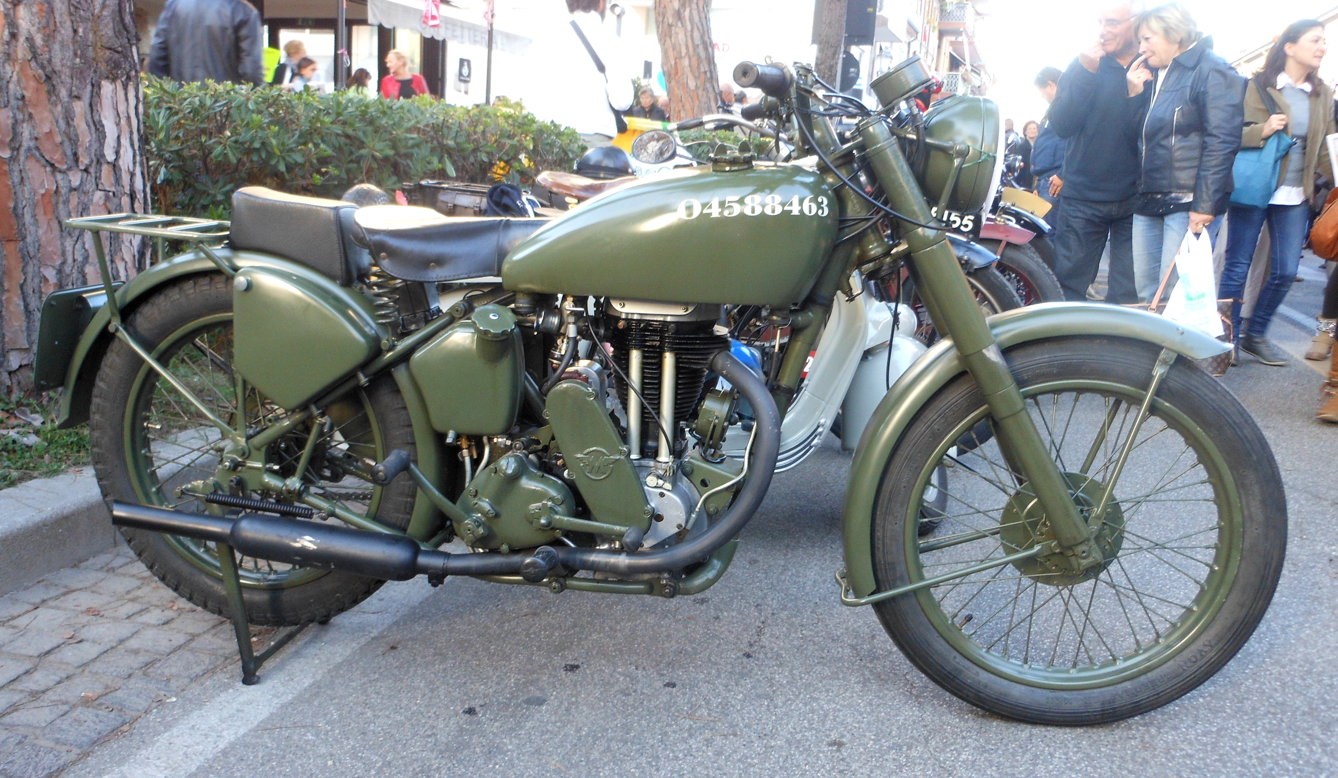 A Matchless WG3L 350 in Rimini